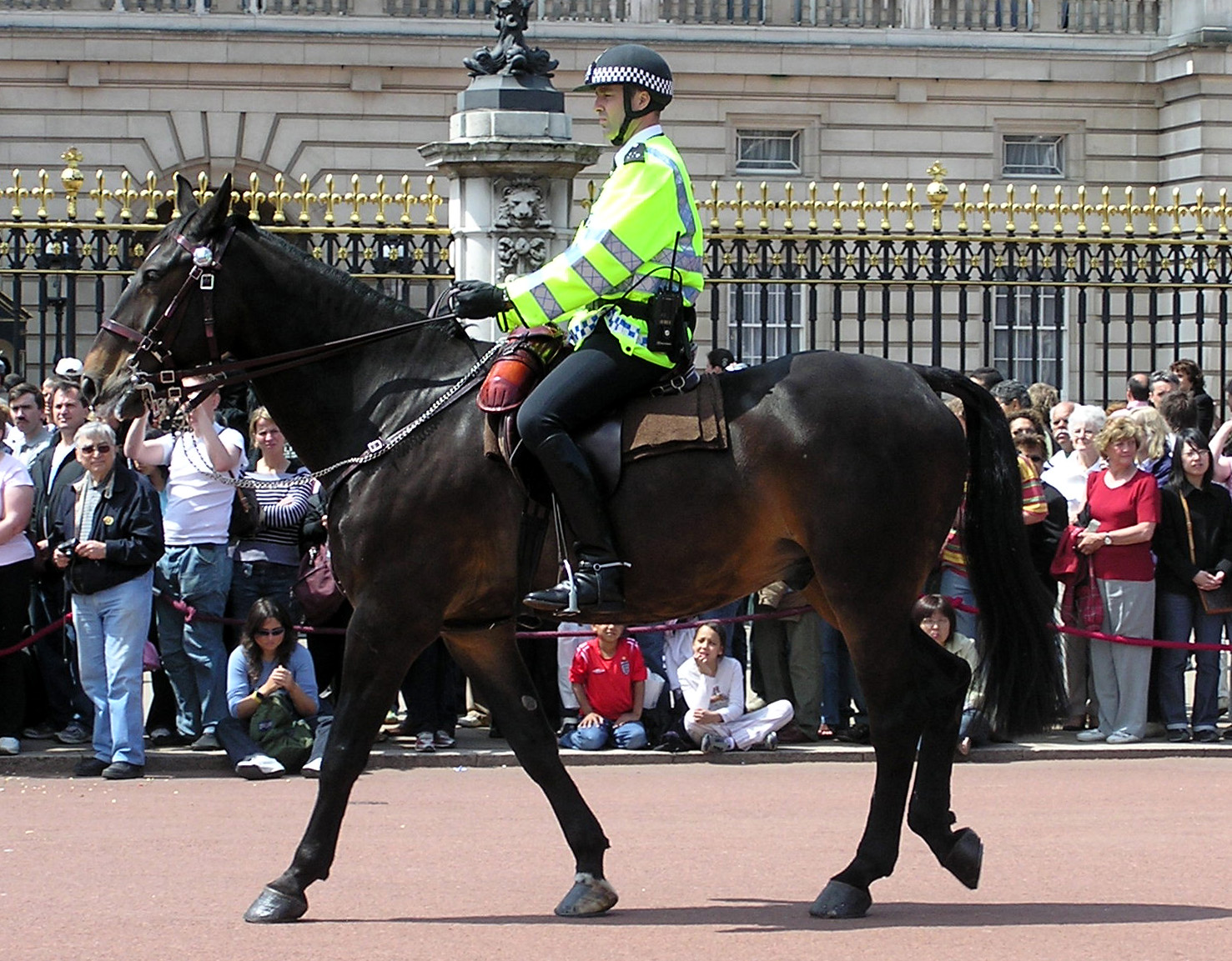 A mounted police officer passes Buckingham Palace, London. Photographed by Adrian Pingstone in June 2005 and released to the public domain.